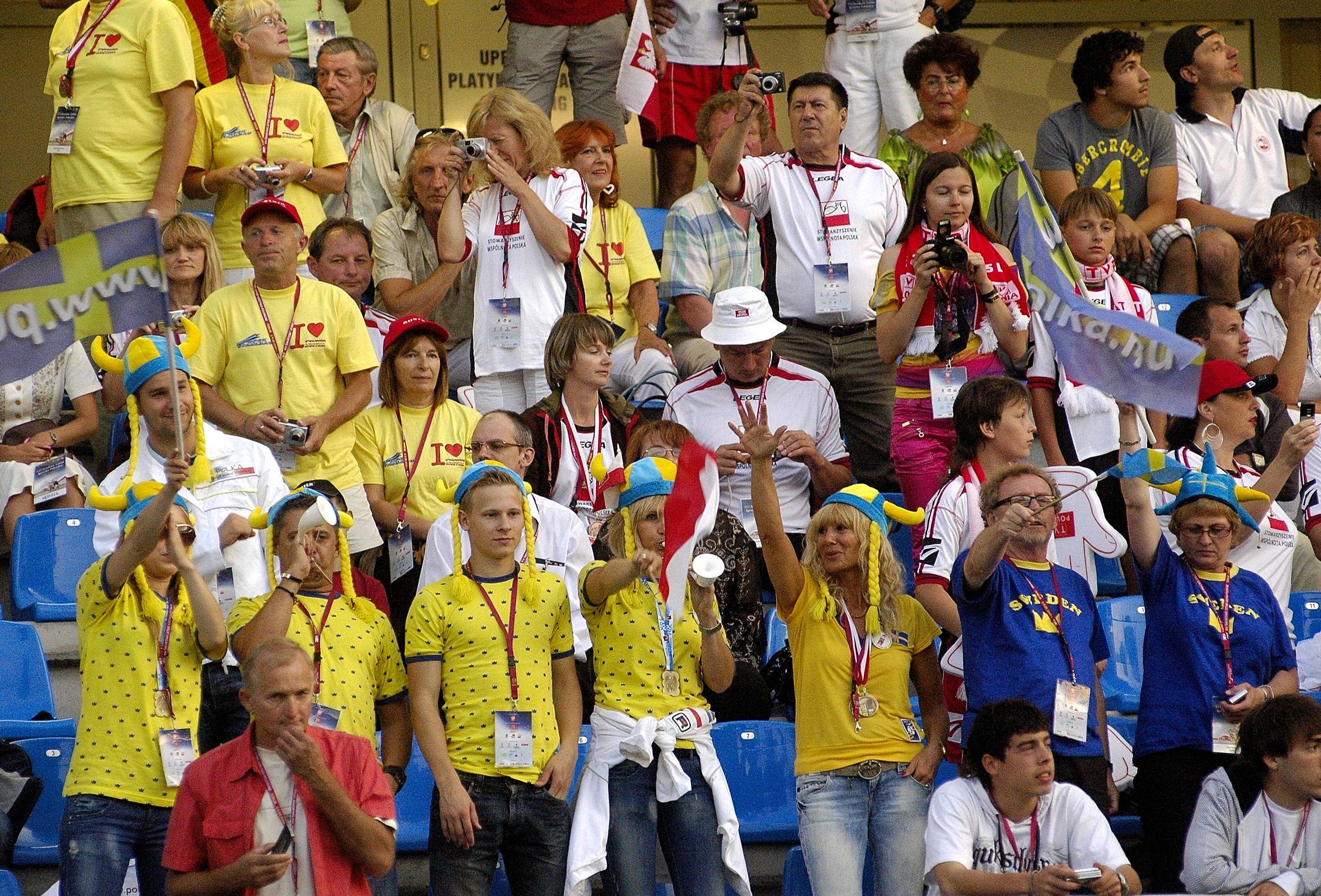 14th World Summer Polonia Games in Toruń